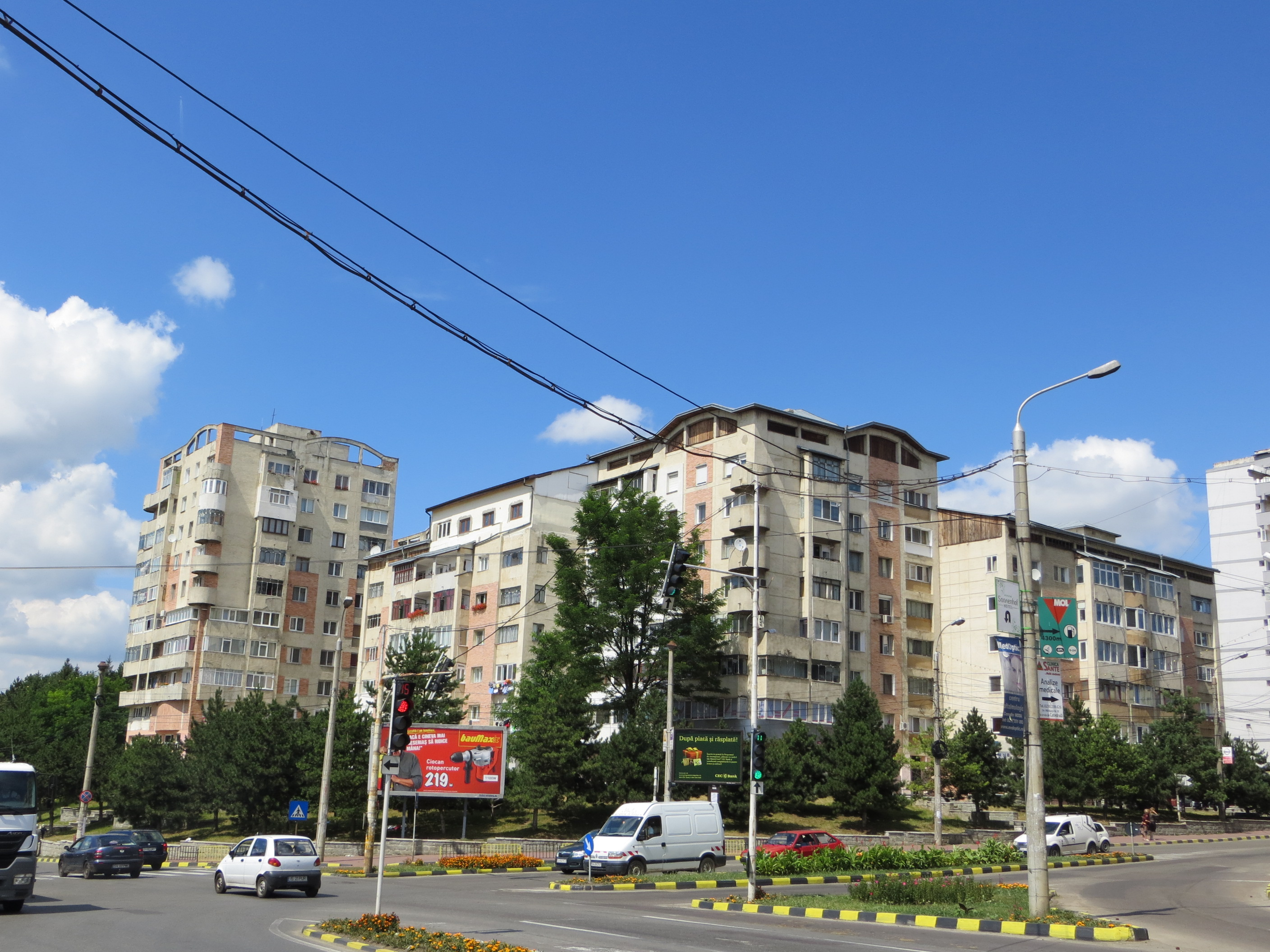 Apartment blocks in Suceava (Mobila block).